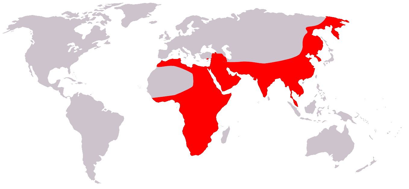 Sharper version of Image:Leopard prevalence.JPG, based on Image:Blank map of world no country borders.PNG and Image:Leopard prevalence.JPG